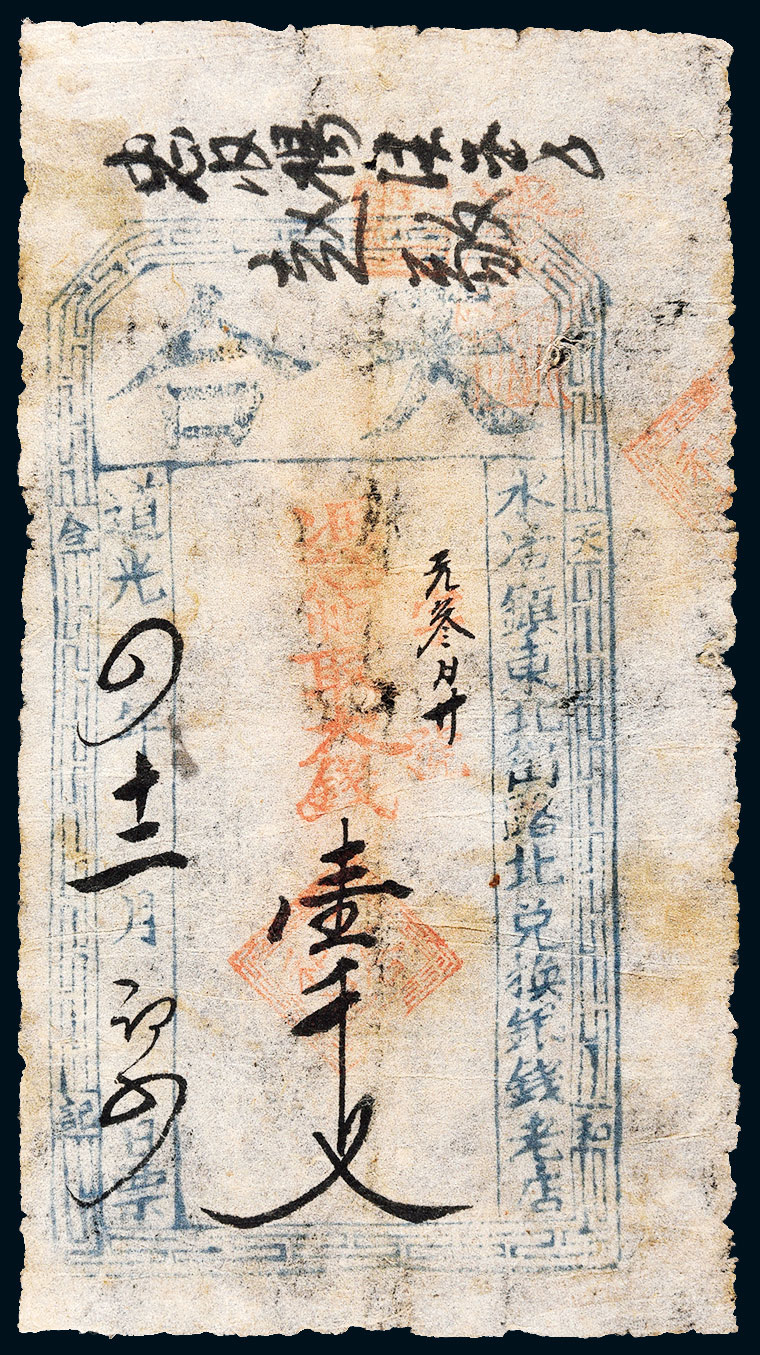 A private banknote (zhuangpiao) issued by a local private money shop (qianzhuang) under the reign of the Manchu Qing Dynasty.